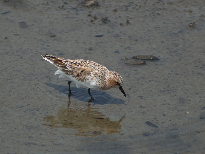 Calidris ruficollis（紅胸濱鷸．穉鷸）, summer plumage, Yunlin County, Taiwan, 2008.